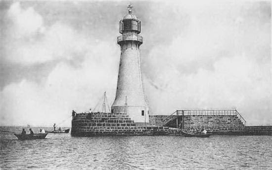 Old Metal Vorontsov lighthouse in Odessa, Russian Empire